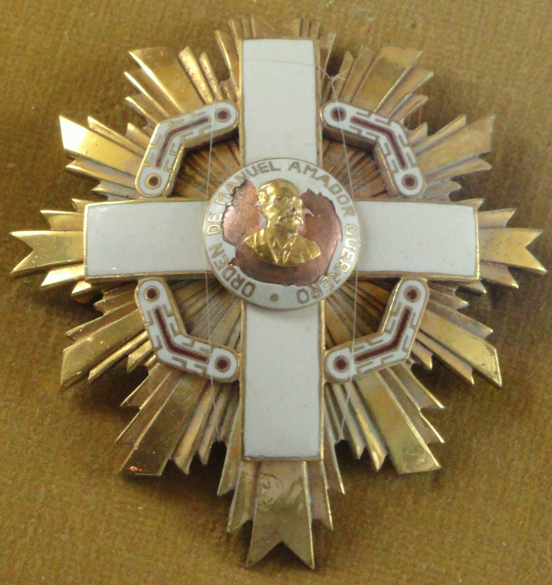 IExhibit in the Memorial JK, Brasília, Brazil.